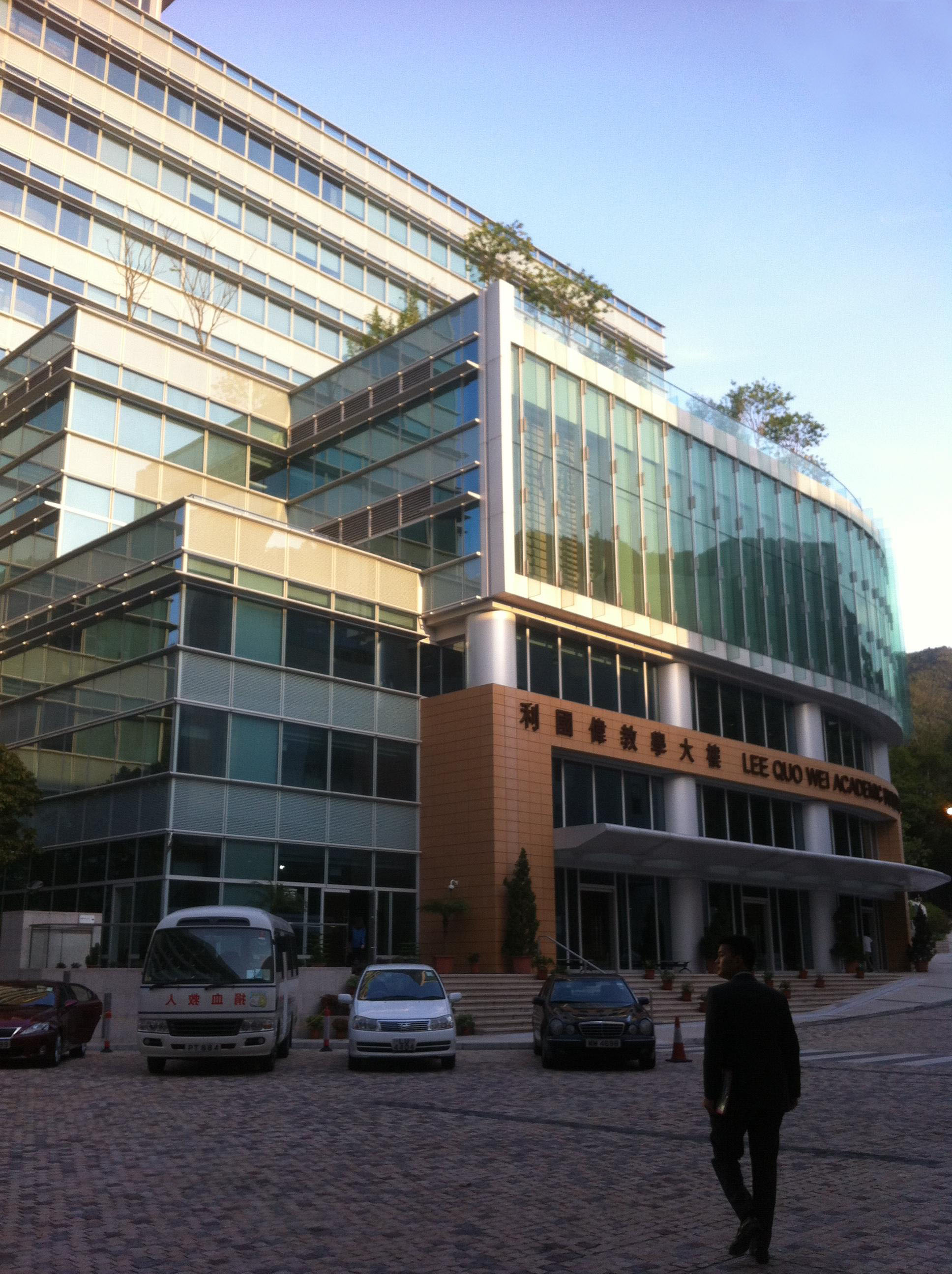 LEE Quo Wei Academic Building, Hang Seng Management College, Hong Kong